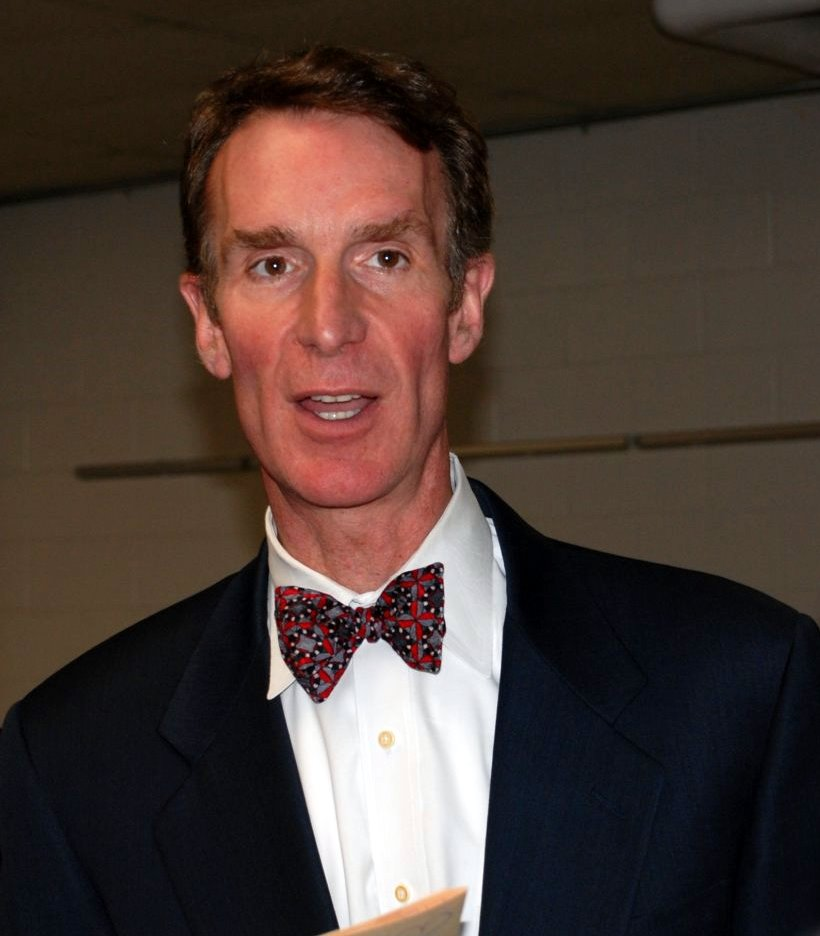 Bill Nye - Taken at Bridgewater State College after he spoke on April 10th, 2007.